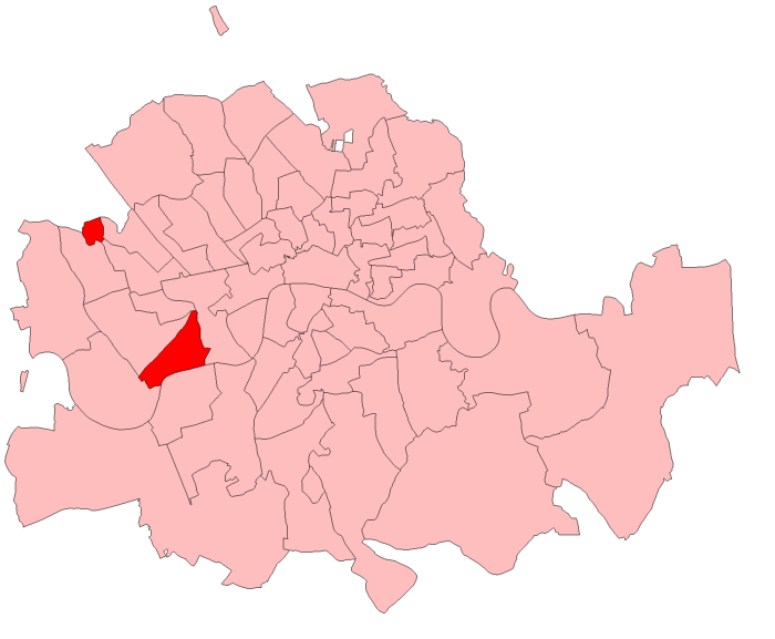 A map of Chelsea constituency within the Metropolitan Board of Works area, as it existed from 1885 to 1918.